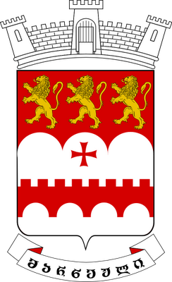 Coat of arms of the city of Marneuli, Georgia.